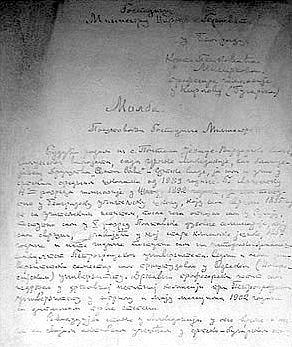 Misirkov's request for a job in the Kingdom of Serbs, Croats and Slovenes.